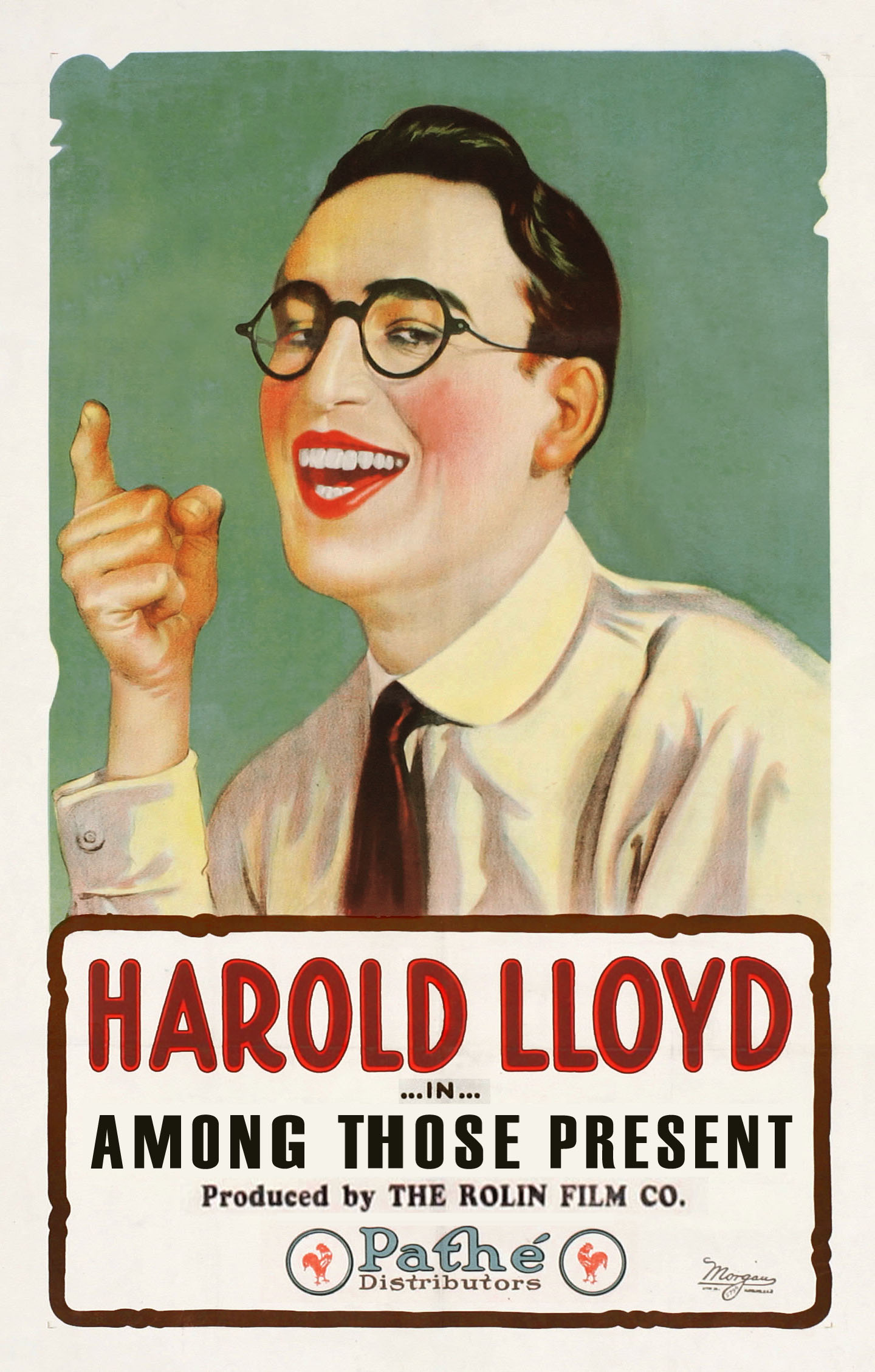 Film poster for the Harold Lloyd short Among Those Present